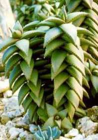 Aloe pearsonii. Endangered Aloe.